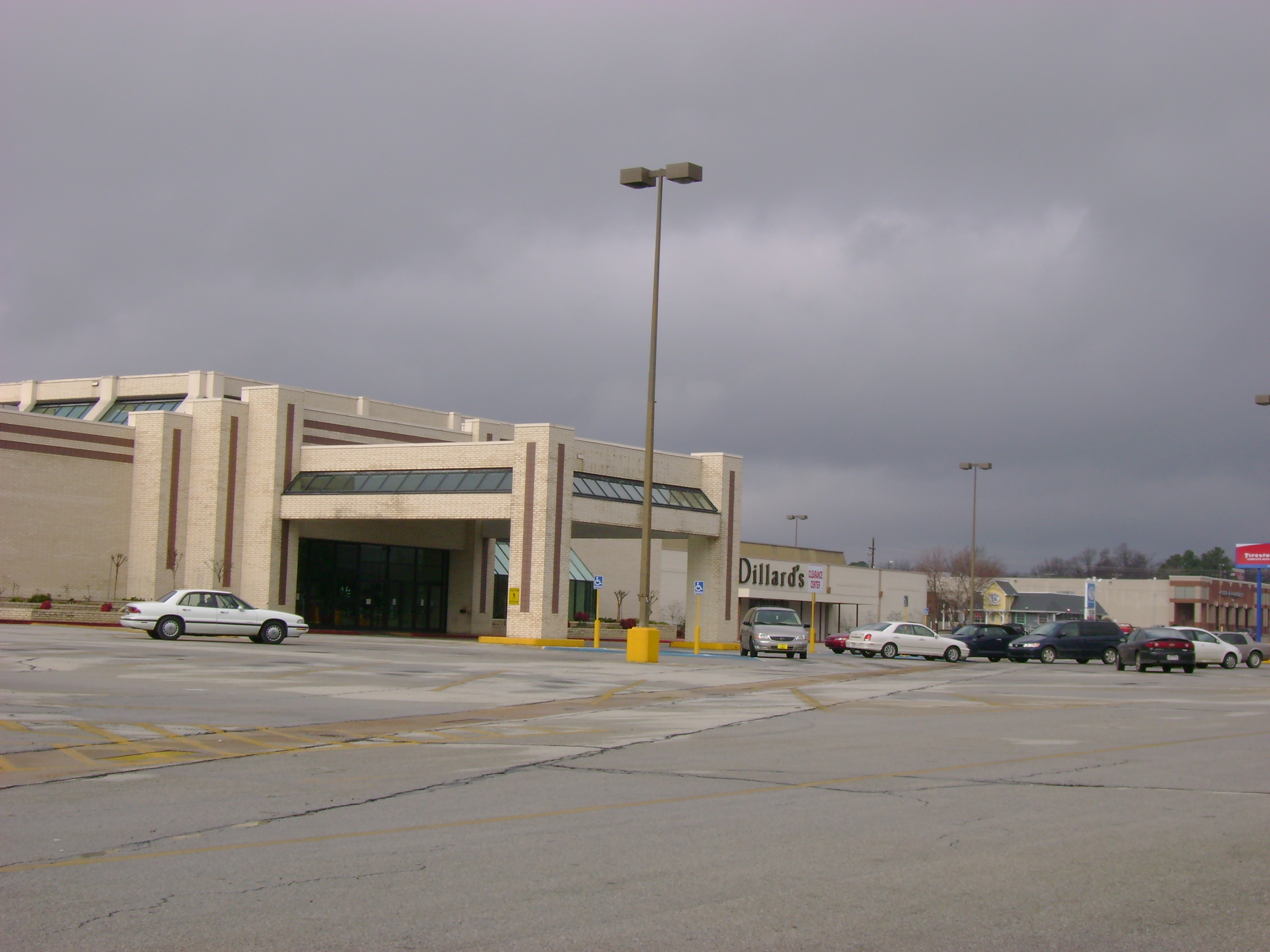 Picture of the front of the Indian Mall in Jonesboro, AR